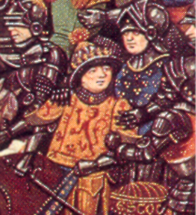 Rìgh Daibhidh II Alba, aig Blàr Neville's Cross